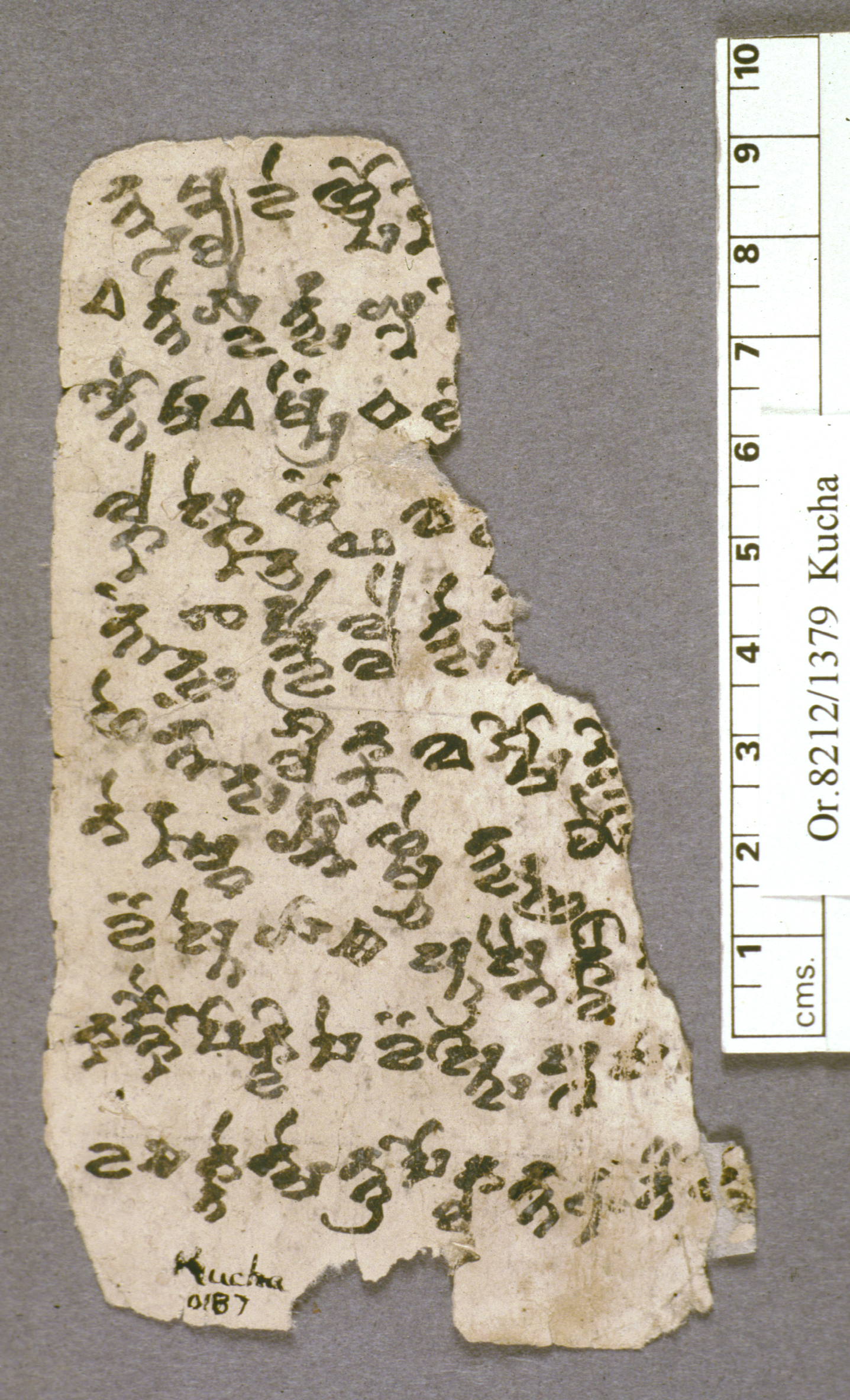 Tocharian B fragment in Brahmi script found at Kucha.